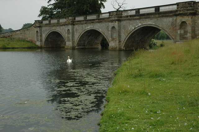 Boathouse Bridge The Boathouse Bridge in Kedleston Park.